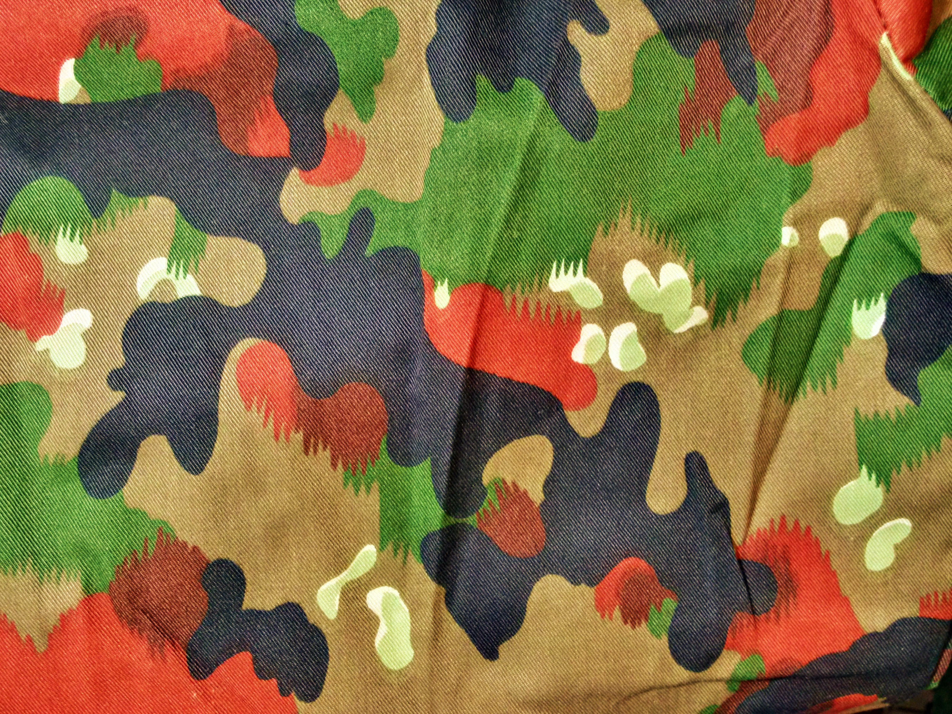 Kampfanzug 57/70 The pattern is based on an experimental all-terrain pattern that saw limited service in World War II by Germany's Waffen-SS and Wehrmacht called Leibermuster